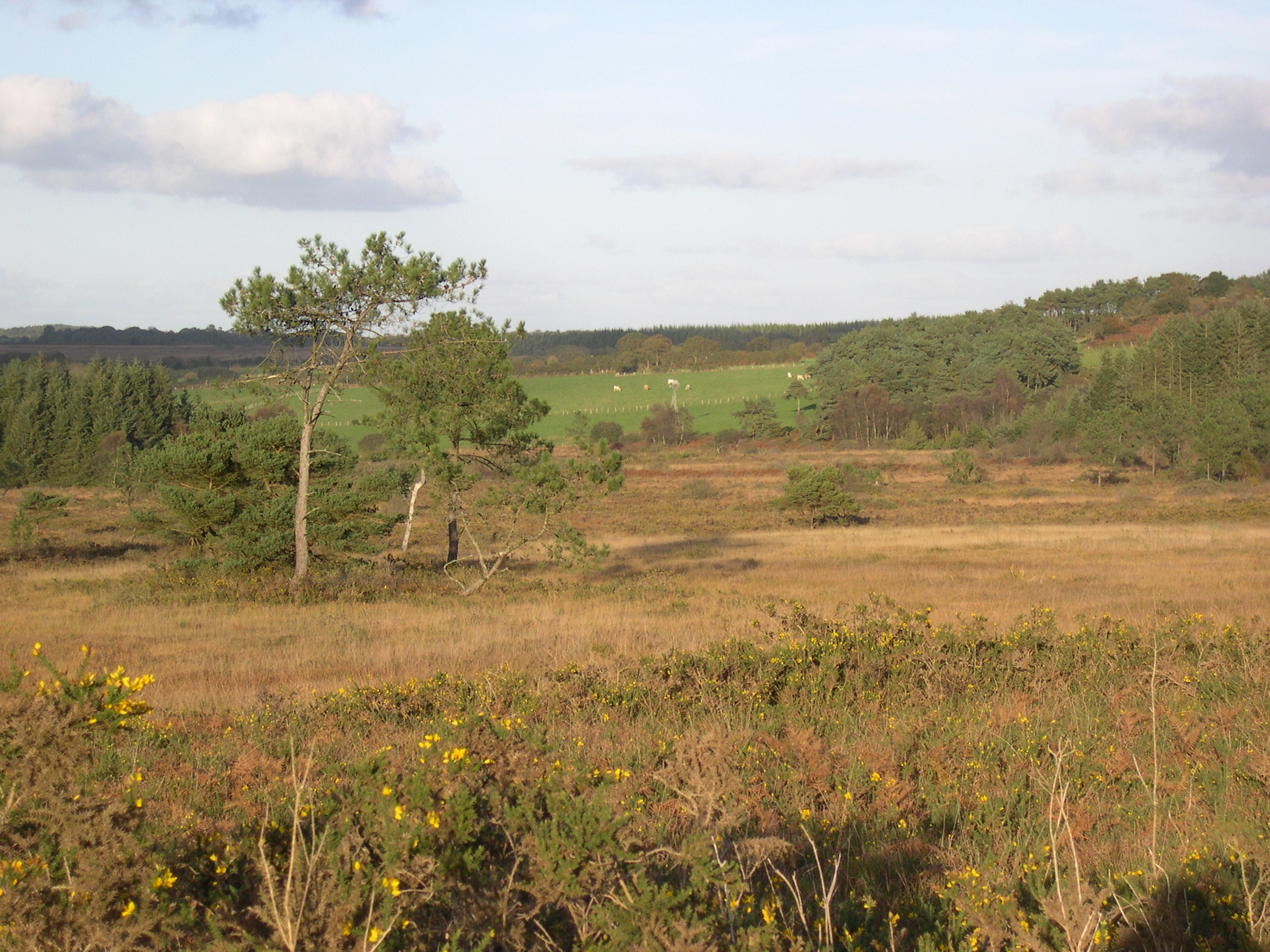 moor landscape at the Douron river spring